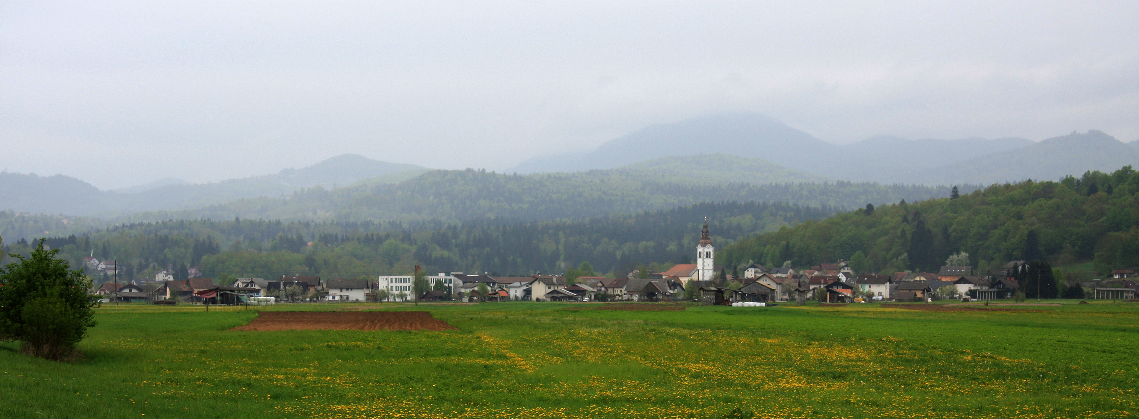 Ig, a town in Ig municipality, Slovenia